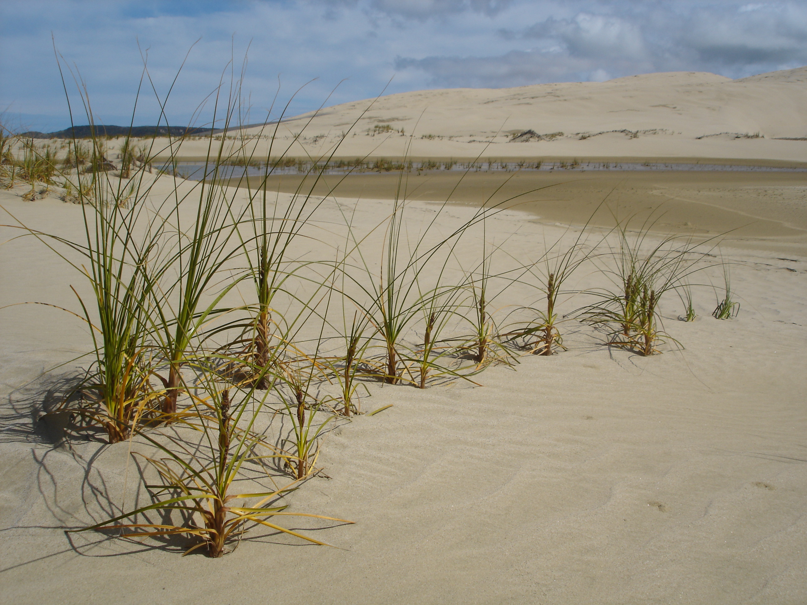 Desmoschoenus spiralis. This plant is multiplying itself by forming a row of stolons. Taken on the northern island of New Zealand.